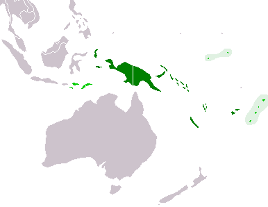 Map of Melanesia. This is a simple modification of Image:BlankMap-World.png.